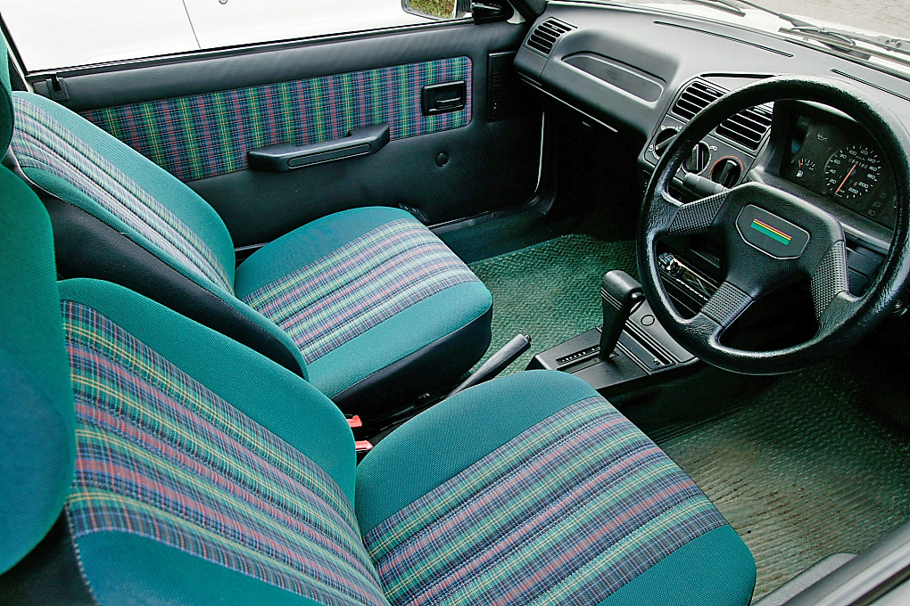 Interior of Peugeot 205 Blanche